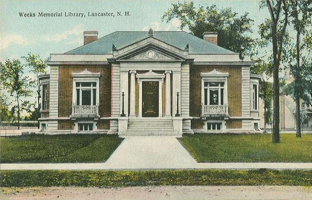 Weeks Memorial Library, Lancaster, New Hampshire. Designed by Boston architects William H. McLean and Albert H. Wright, it was given in 1906 by John Wingate Weeks in memory of his father, William Dennis Weeks.